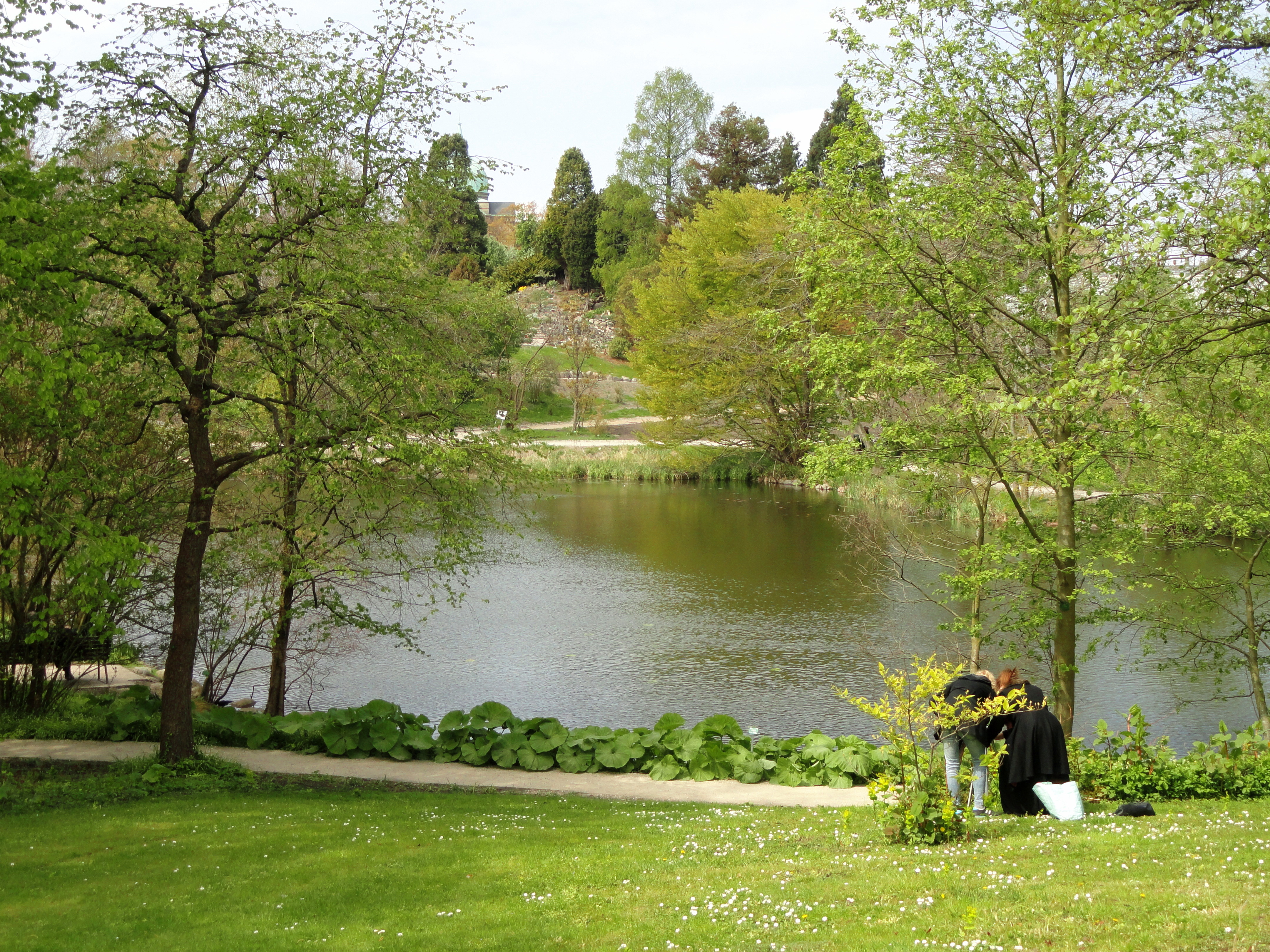 General view of the University of Copenhagen Botanical Garden, Copenhagen, Denmark.